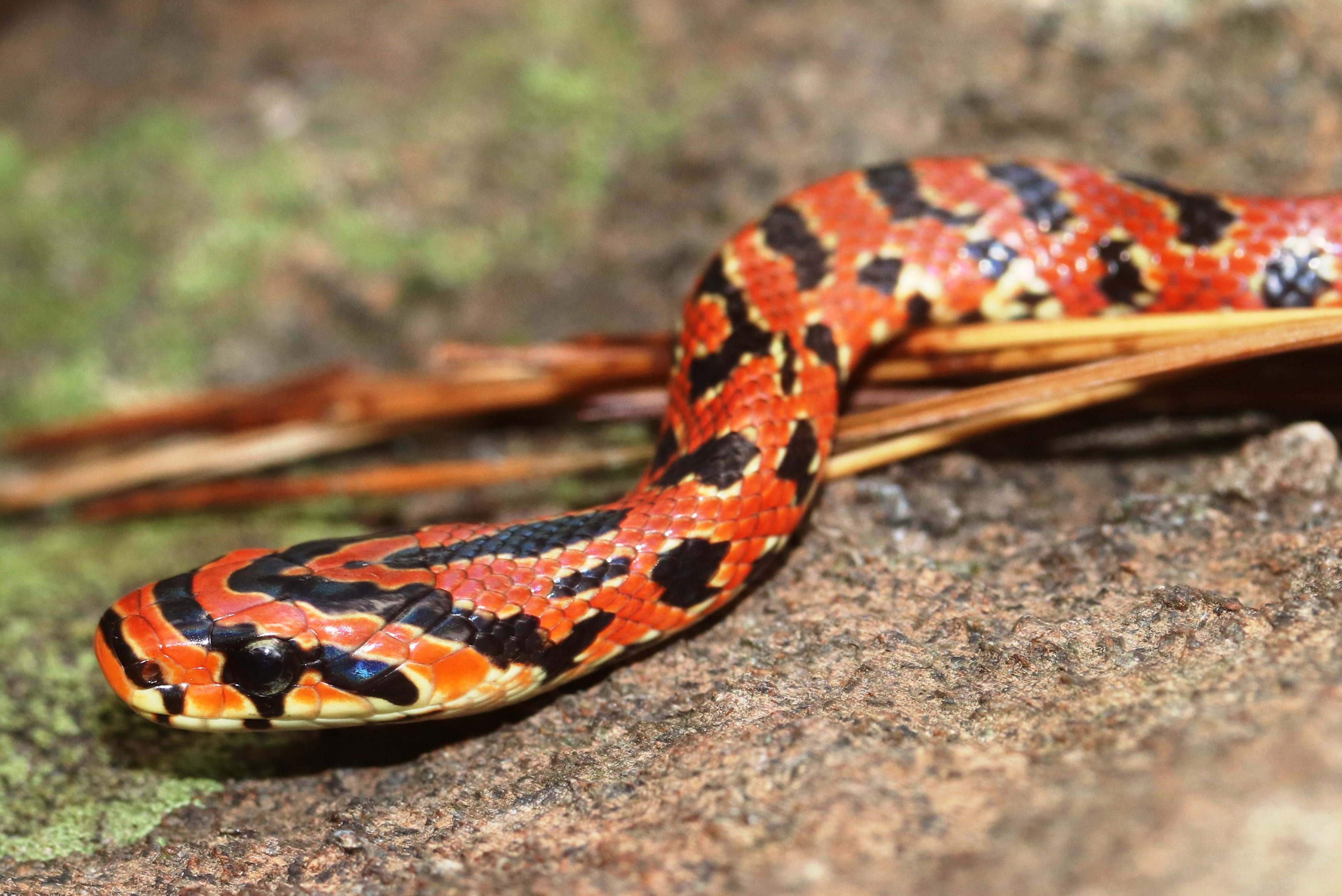 Euprepiophis conspicillata in Yumihari Mountains, Shinshiro, Aichi Prefecture, Japan.